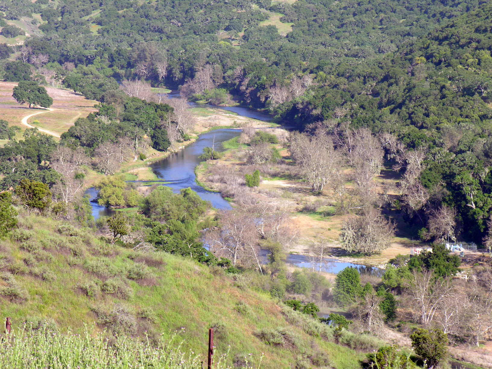 The Nacimiento River, a major tributary of the Salinas River in southern Monterey County and northern San Luis Obispo County, California. It was taken by me on May 8, 2006. I give permission for the picture to be used with attribution under the GFDL and Creative Commons.